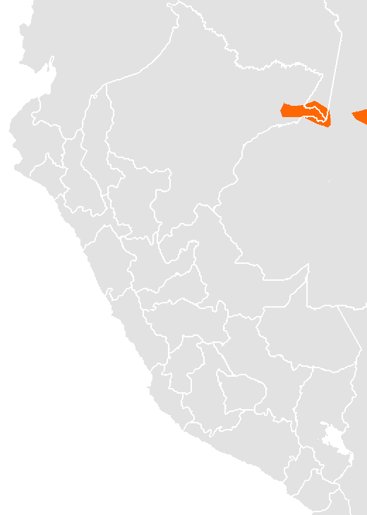 Ticuna language, Source: on data of Mary Ruth Wise "Small languages families and isolates in Peru" in The Amazonian Languages, Dixon & Alexandra Y. Aikhenvald (eds.), Cambridge: Cambridge University Press, 1999. p. 307-340. Also Ethnologue map of Peru, Ethnologue map of Colombia and Ethnologue map of Brasil